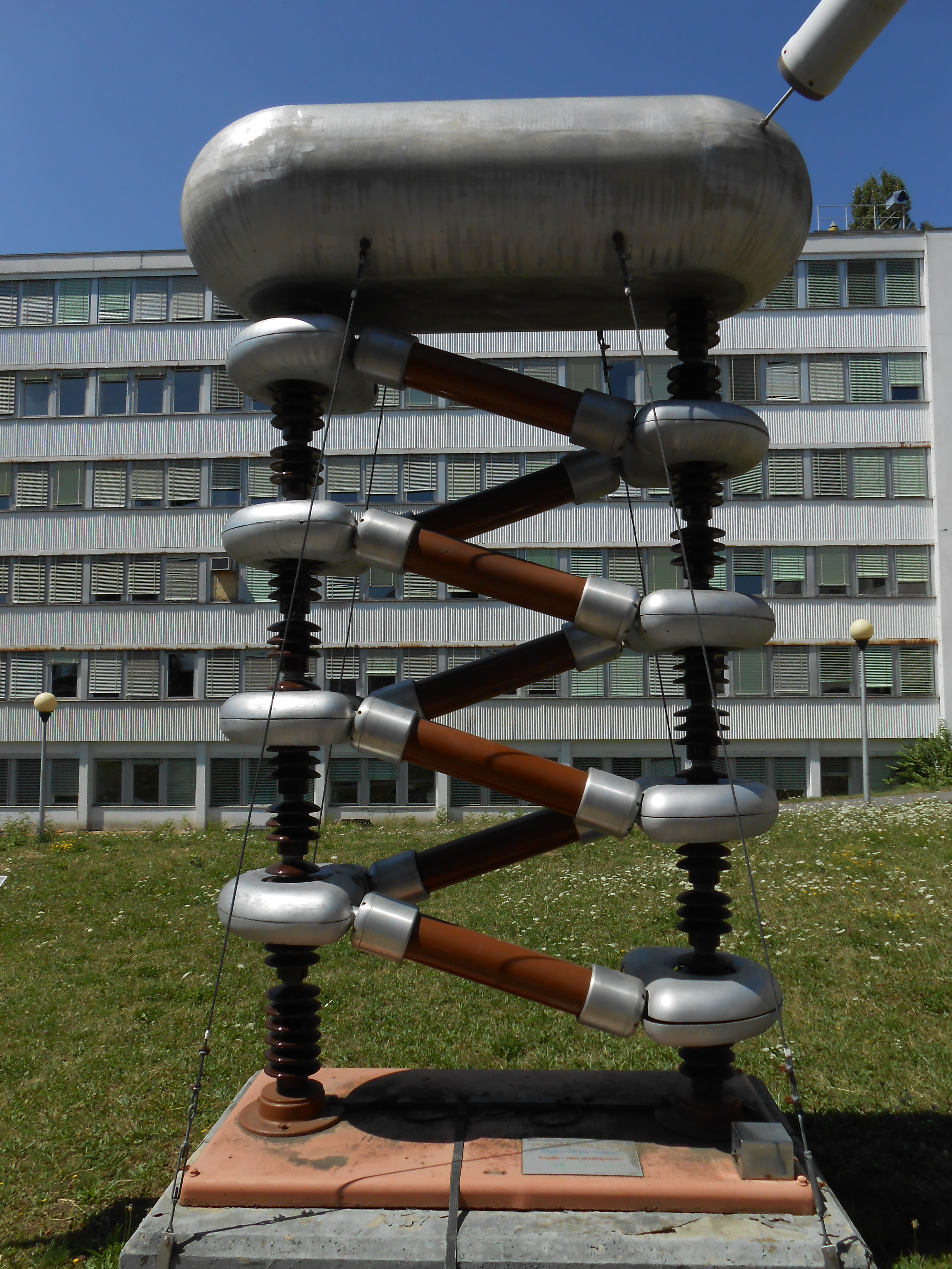 Cockcroft-Walton generator, in the garden of Microcosm museum at CERN